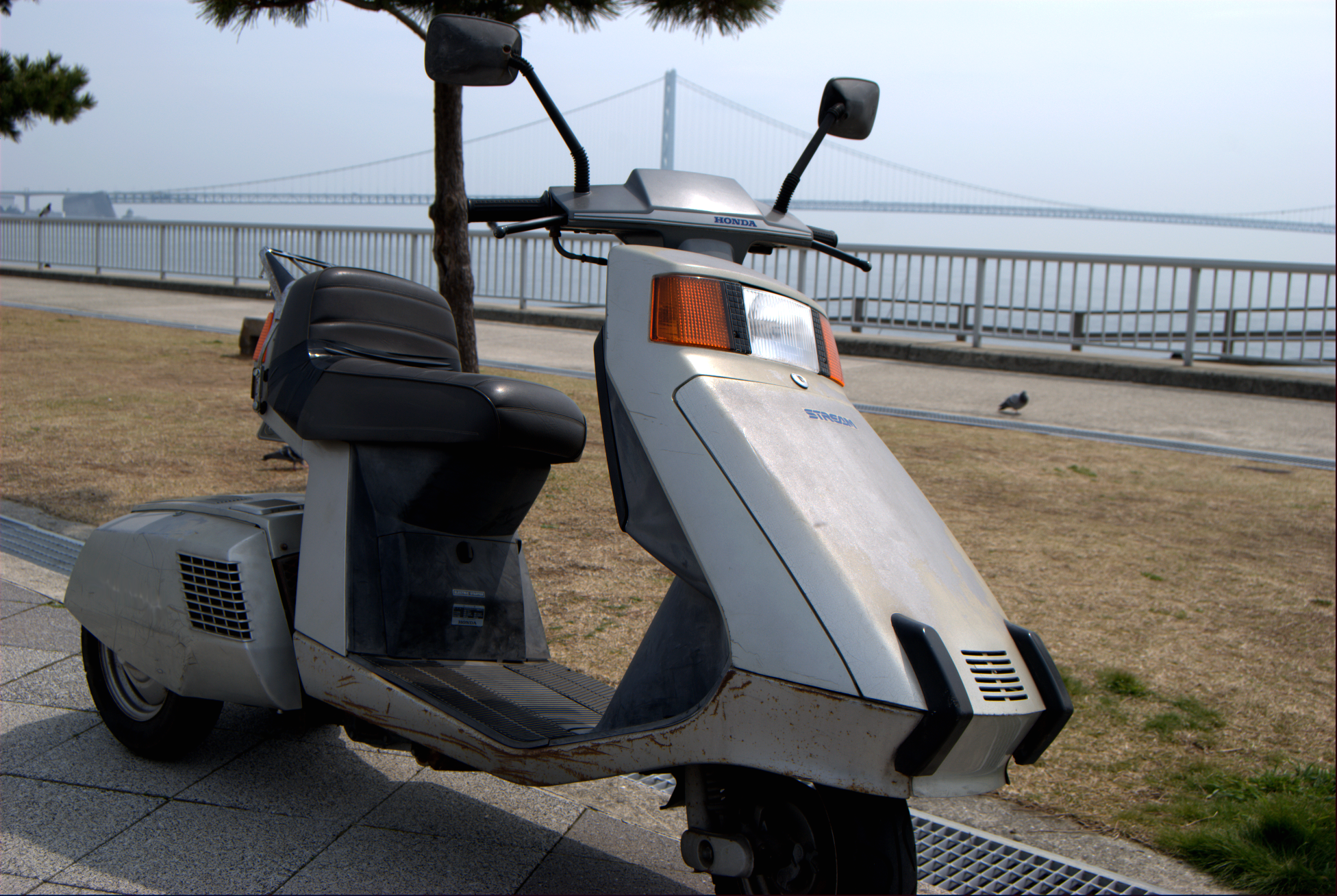 Honda Stream(scooter)